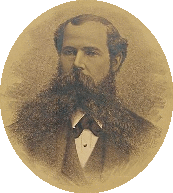 Henry C. Work: author of "Marching Thro' Georgia." Library of Congress Prints and Photographs Division